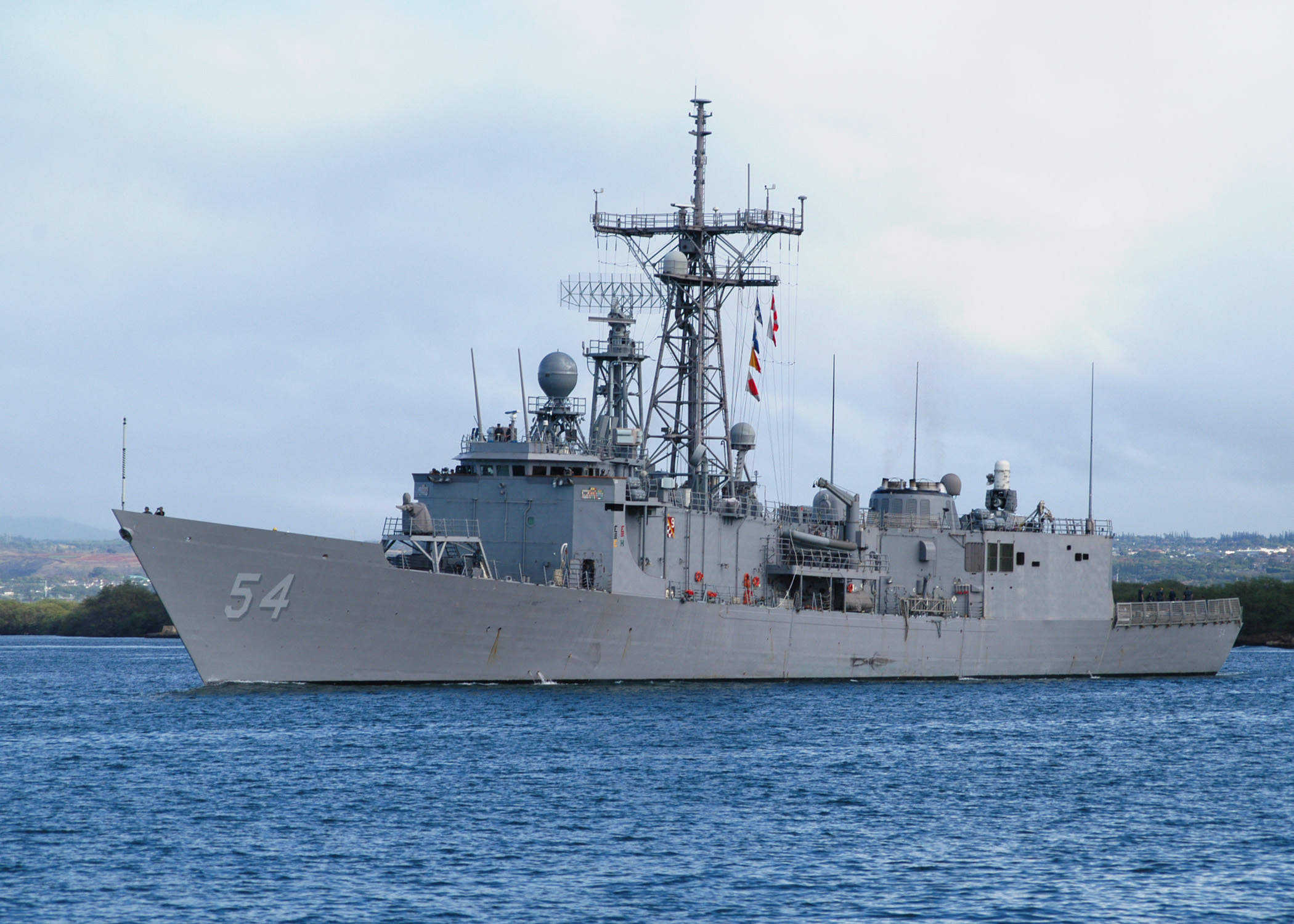 PEARL HARBOR (July 7, 2010) The Oliver Hazard Perry-class fast frigate USS Ford (FFG 54) departs Joint Base Pearl Harbor-Hickam to support Rim of the Pacific (RIMPAC) 2010 exercises. RIMPAC is a biennial, multinational exercise designed to strengthen regional partnerships and improve multinational interoperability. (U.S. Navy photo by Mass Communication Specialist 1st Class Jason Swink/Released)